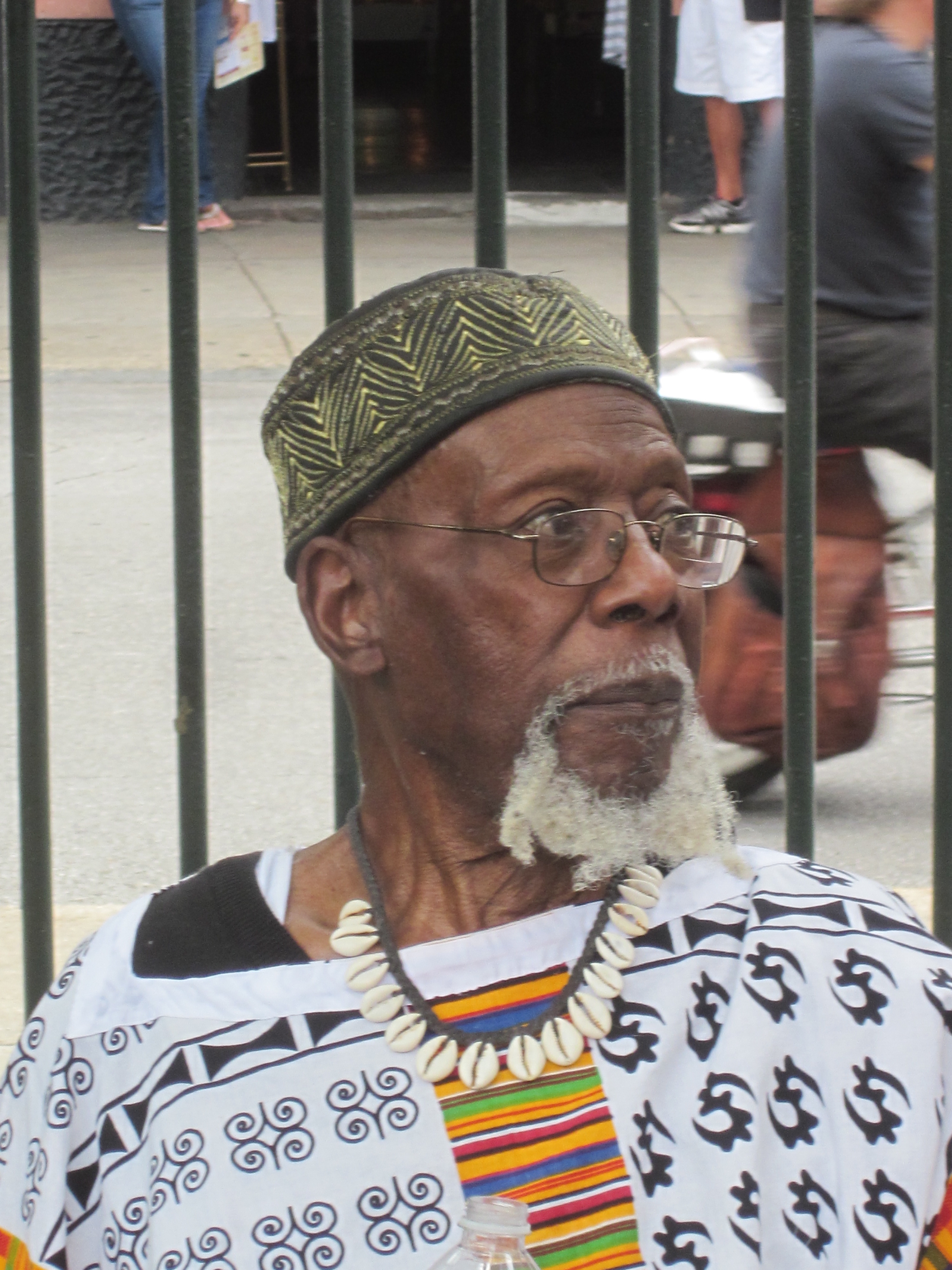 Satchmo SummerFest, New Orleans. Harold Battiste.